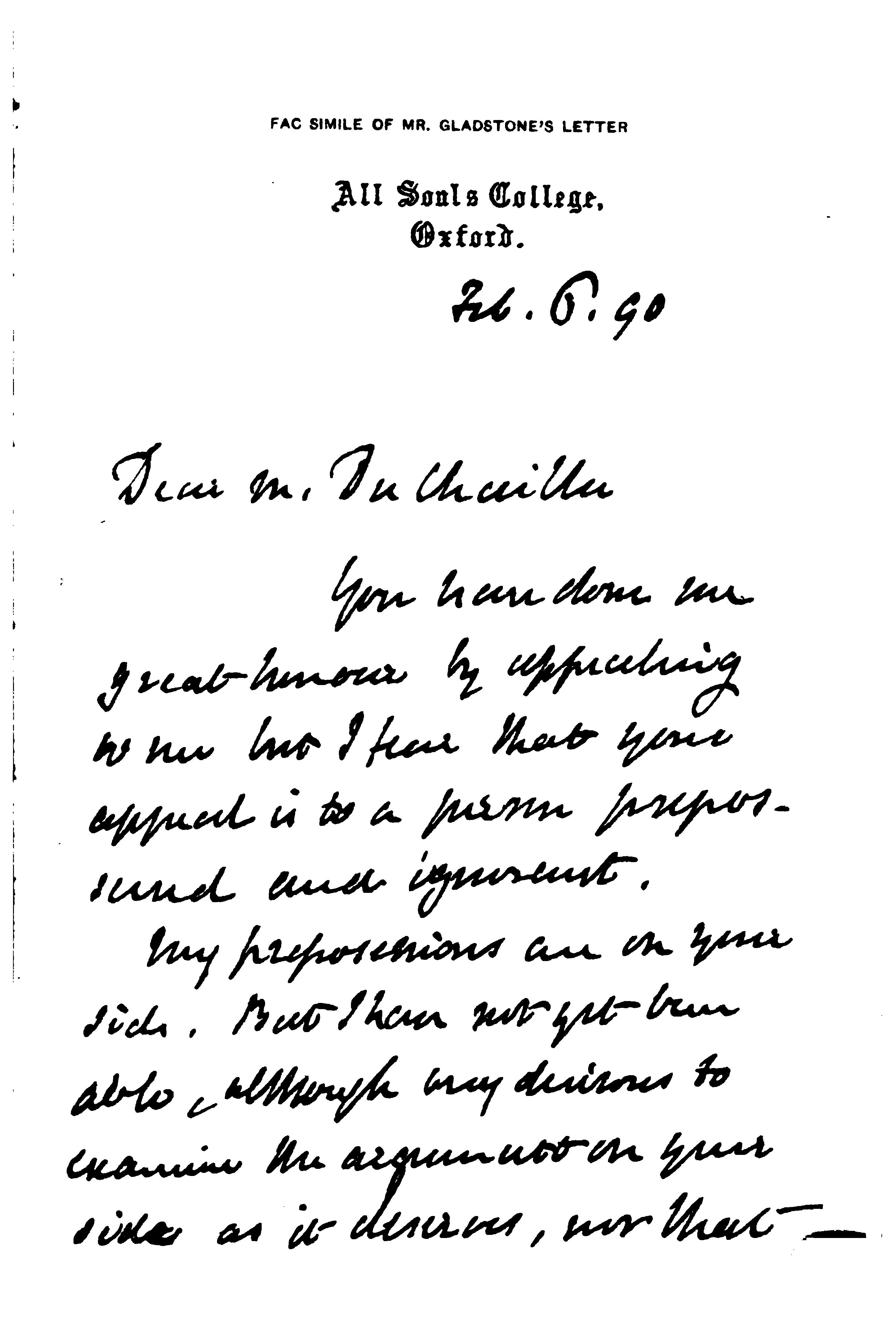 Facsimile of a letter from Gladstone in Ivar the Viking.